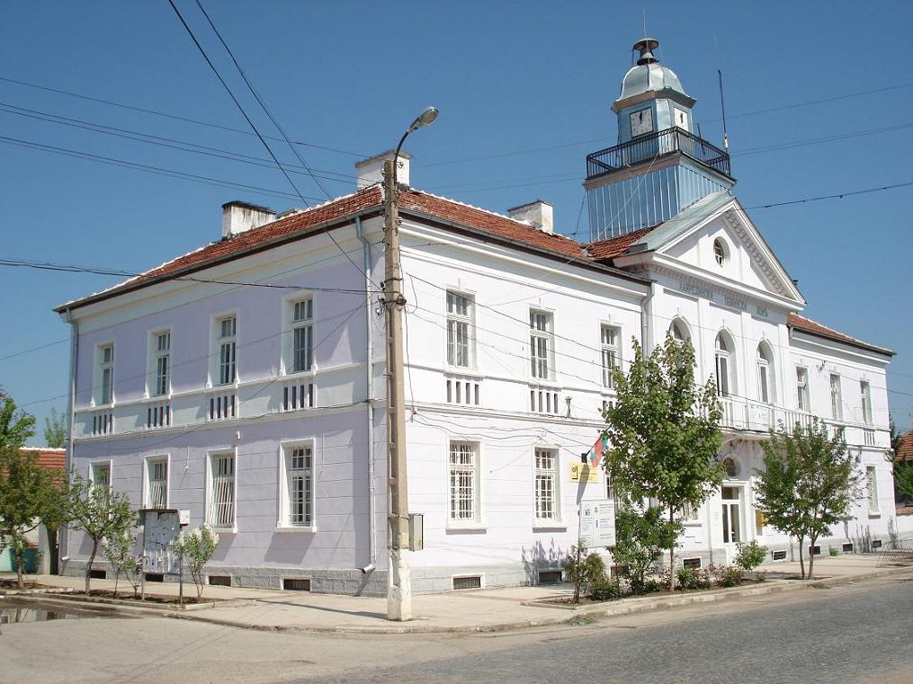 Hayredin, Vraca, Bulgaria